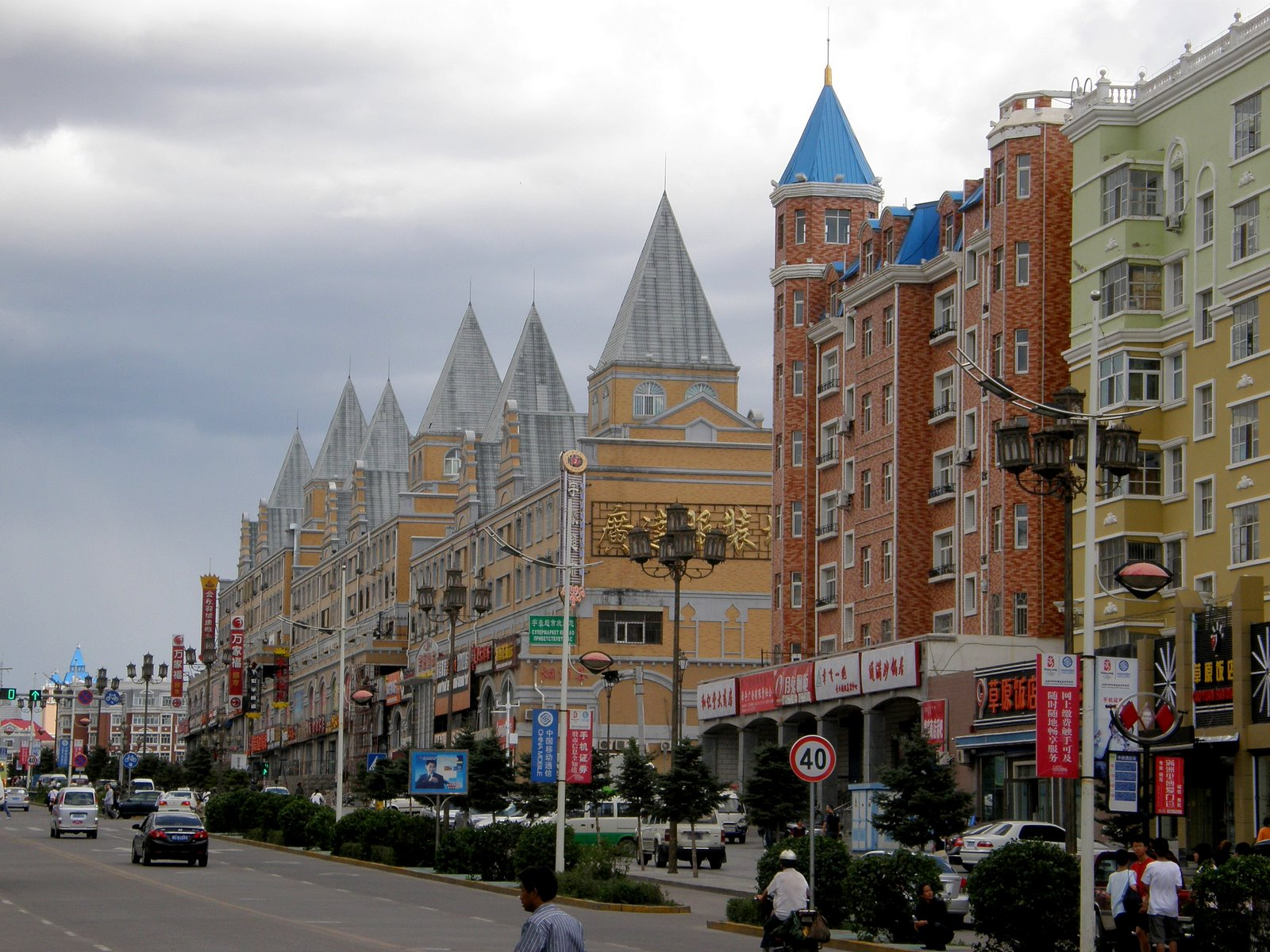 Manzhouli Center, China